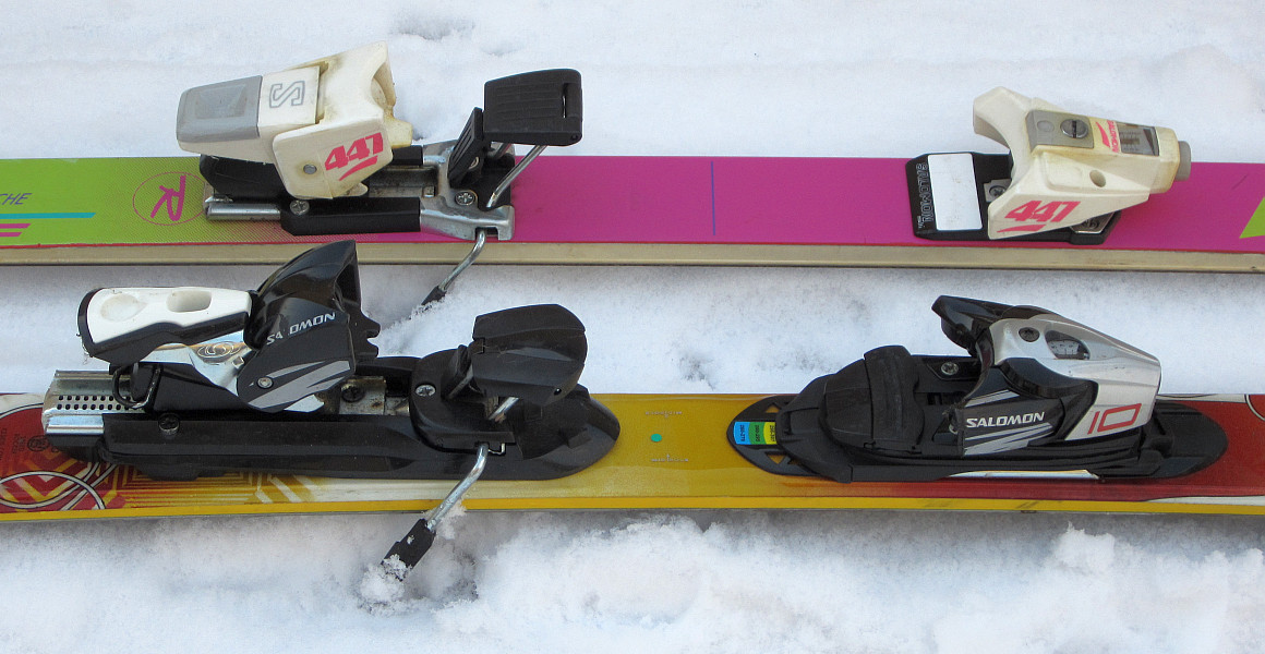 Salomon bindings for alpine skiing Back: 447, late 1980s Front: Z10 rental, 2011